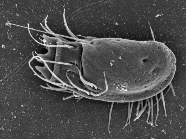 Stephanopogon sp. / SEM:JEOL JSM-6330F